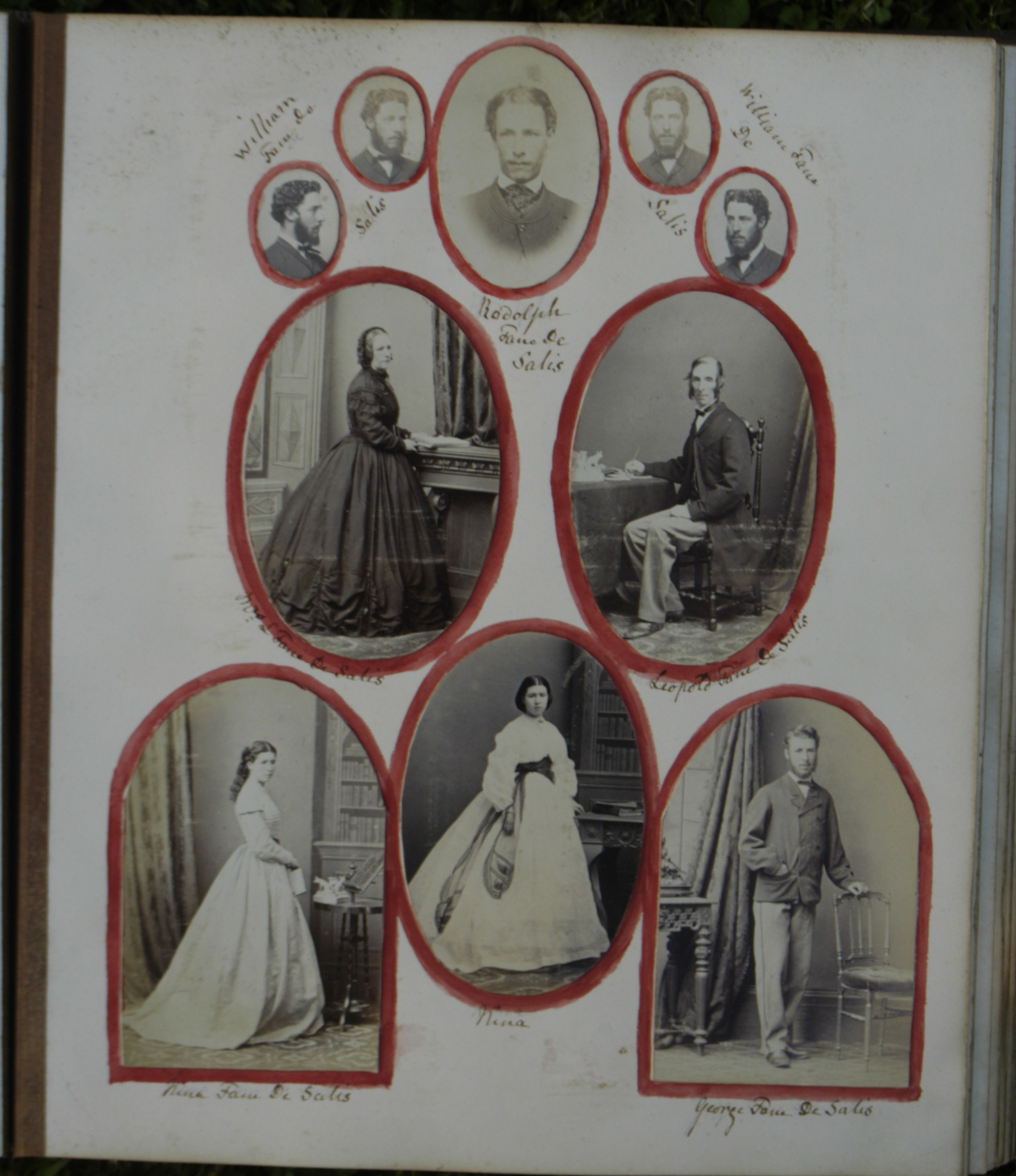 My photo (Rodolph (talk) 23:55, 11 August 2013 (UTC)) of Count Leopold Fane De Salis (1816-98), his wife and children, circa 1870, in an album made by his sister-in-law Emily Fane De Salis. Other information Count Leopold Fane De Salis (1816-98), his wife and children, circa 1870.